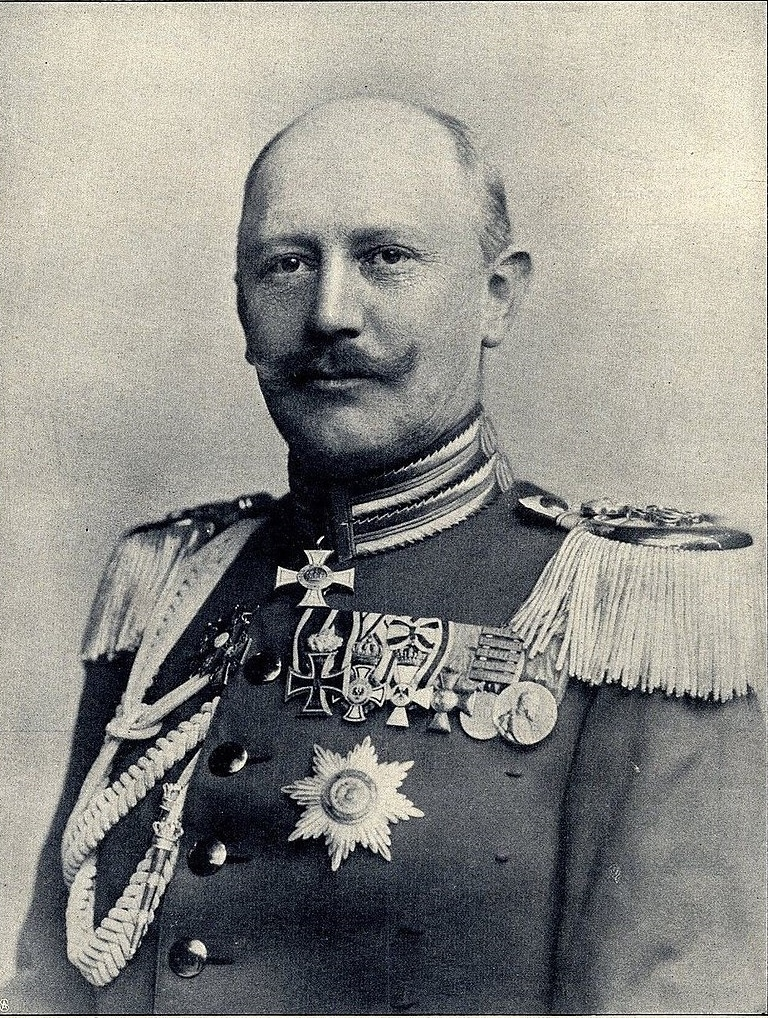 Generalleutnant von Moltke, der neue Chef des Generalstabs, 1906. Photographs by E.Bieber. Image cropped and reuploaded by Emiya1980 using Windows Photo Gallery.